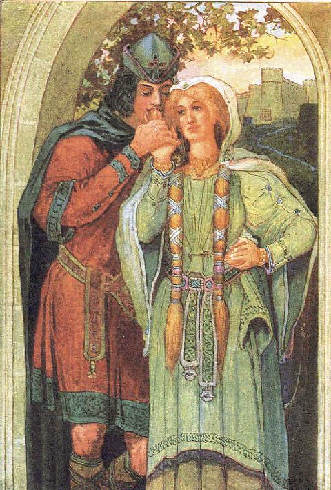 "The Parting of Sir Tristram and la Belle Isault"